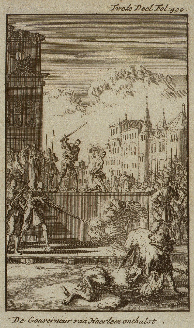 Ripperda werd na de overgave door de Spanjaarden op 16 juli 1573 op de Grote Markt onthoofd.